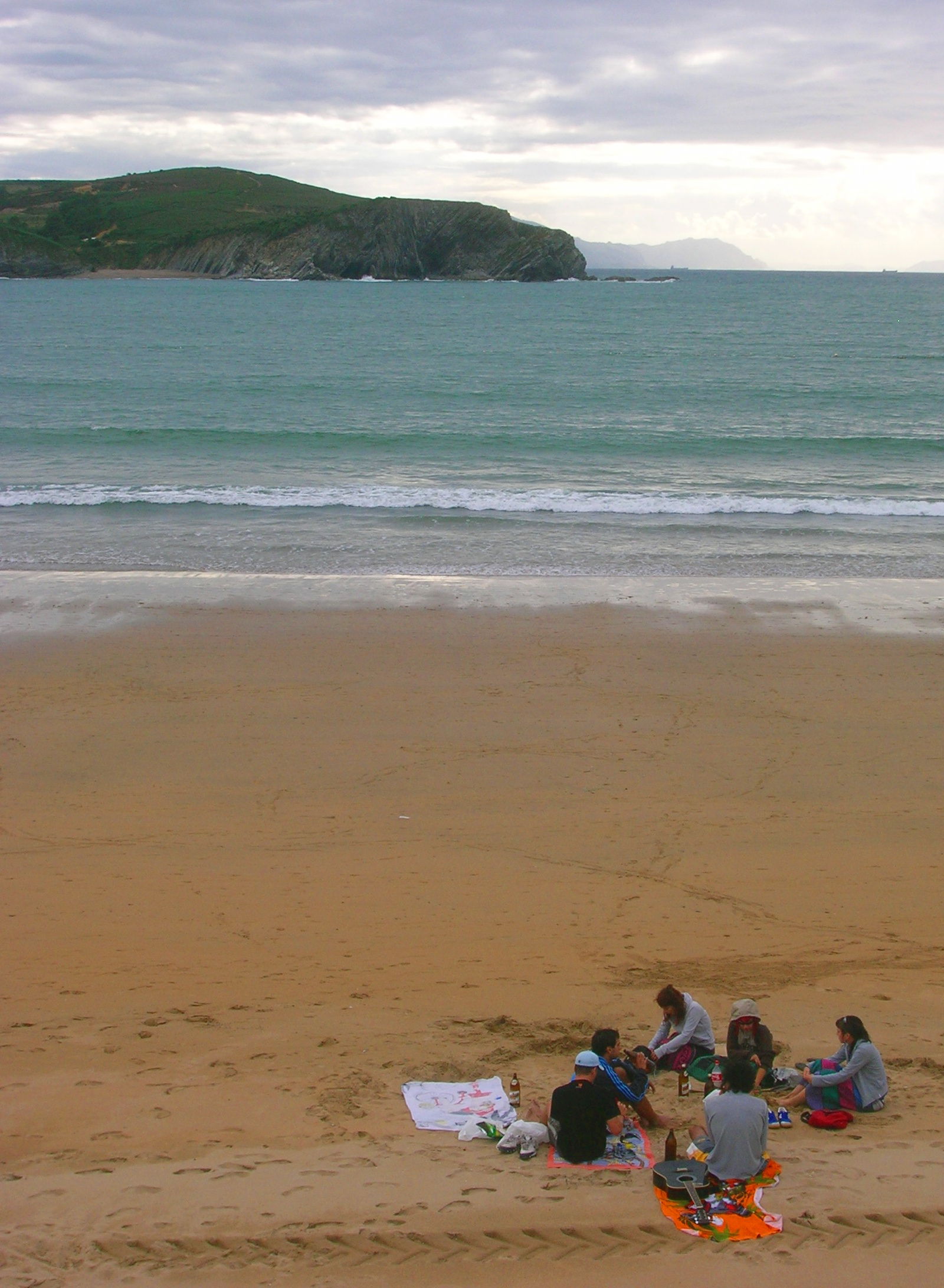 Bunch of youths at Gorliz Beach in the evening. Beyond the bay, the beach and cliffs of Barrika; further in the background, other capes of the Cantabric Coast